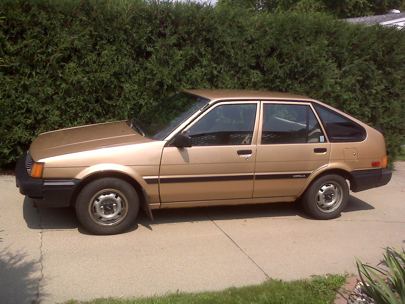 A 1984 Toyota Corolla DX hatchback/liftback which had 544,204 miles (875,811 kilometers) on 2010/08/04.